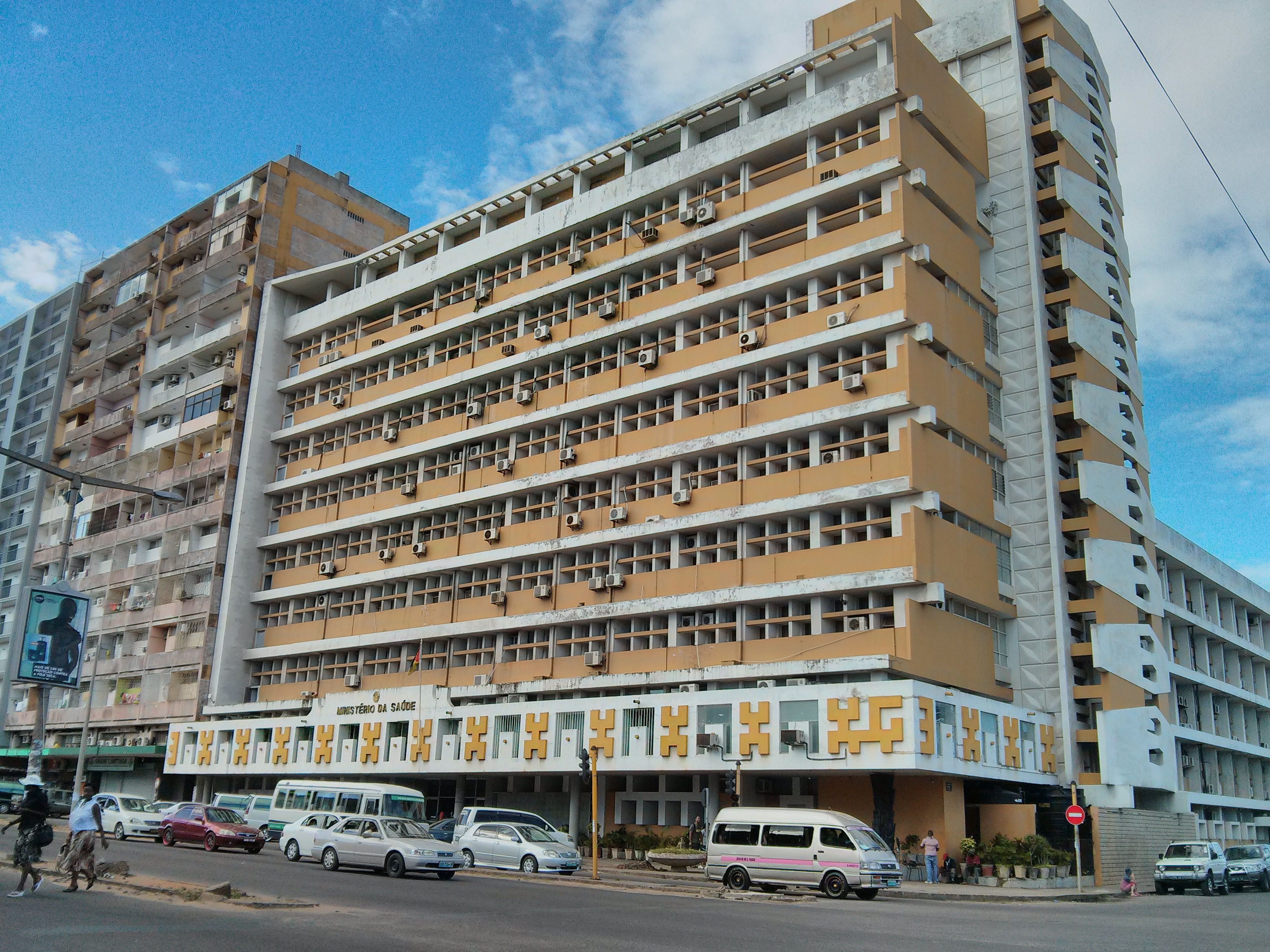 Ministry of Health in Maputo, Mozambique